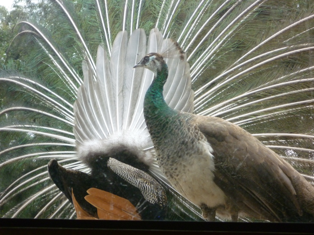 Peacock displaying to attract attention of peahen